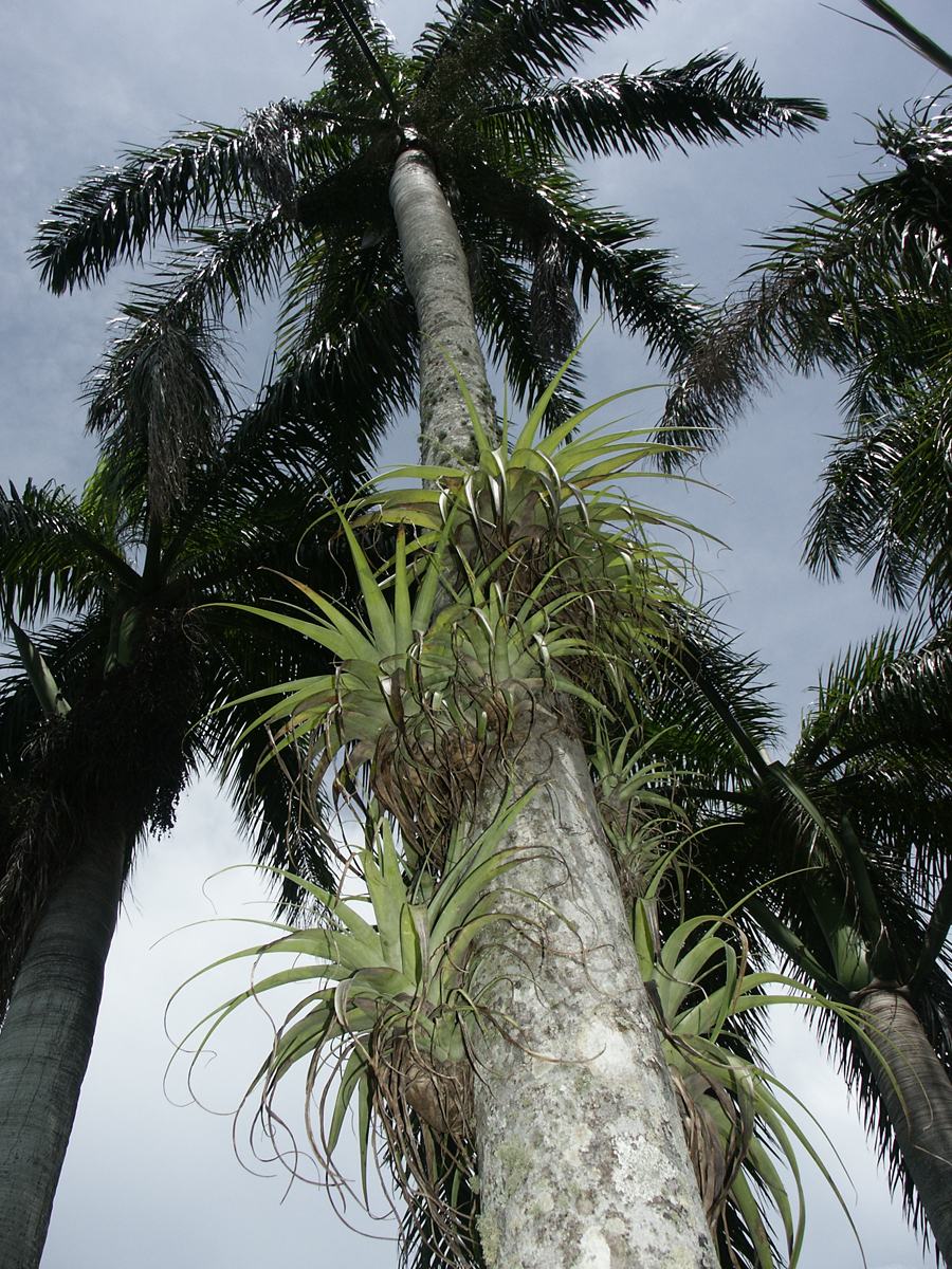 Miami-Dade Co., FL, USA. Wild Tillandsia growing on a cultivated Roystonea regia at Fairchild Tropical Botanic Garden.